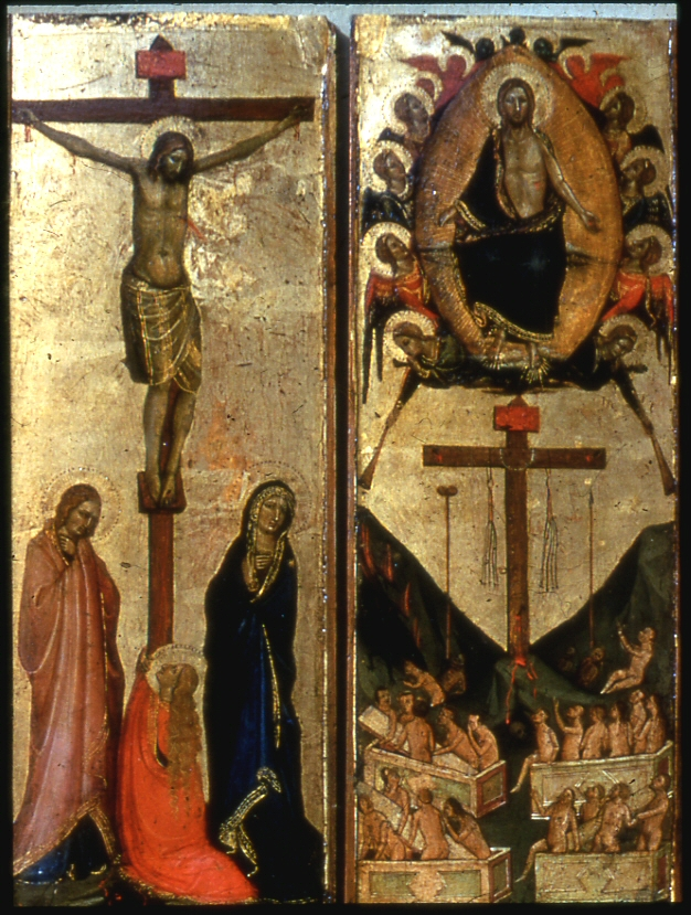 These two panels are the wings from a private devotional triptych (three-panel painting). In the Last Judgment scene, Christ arrives in glory to judge the dead, who rise from their tombs expressing hope, awe, and fear. Christ's right hand is turned palm upward to indicate that those on his right side will be saved, while his down-turned left hand is aligned with the mouth of hell, into which a devil drags a female sinner by her hair. Look closely at the Crucifixion; at least eleven angels once surrounded Christ's body. Free-hand drawings of their haloes and bodies can still be seen scratched into the gold ground. For more information on these panels, please see Zeri catalogue number 5, pp. 10-11.